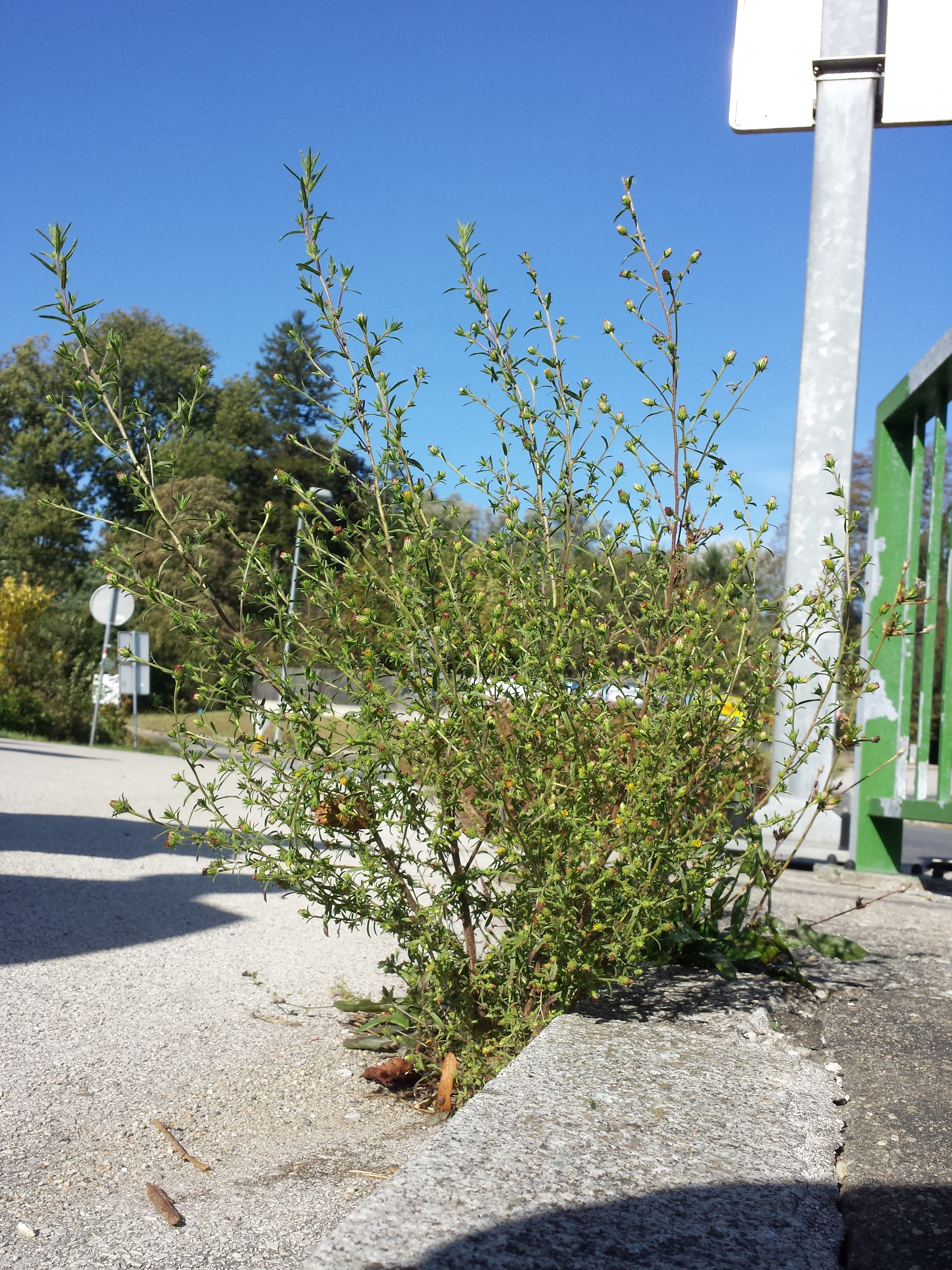 Habitus Taxonym: Dittrichia graveolens ss Fischer et al. EfÖLS 2008 ISBN 978-3-85474-187-9 Location: Korneuburg, Lower Austria - ca. 170 m a.s.l. Habitat: gap in street surface